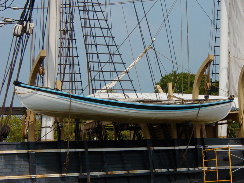 Whaleboat in davits at Mystic Seaport, Connecticut. Image by User:Leonard G.